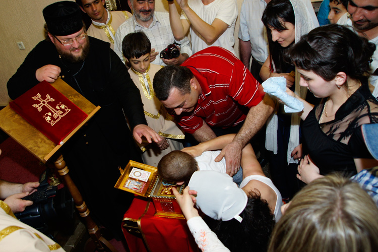 Saint Cross in Armenian Church Sourb Gevorg in Volgograd